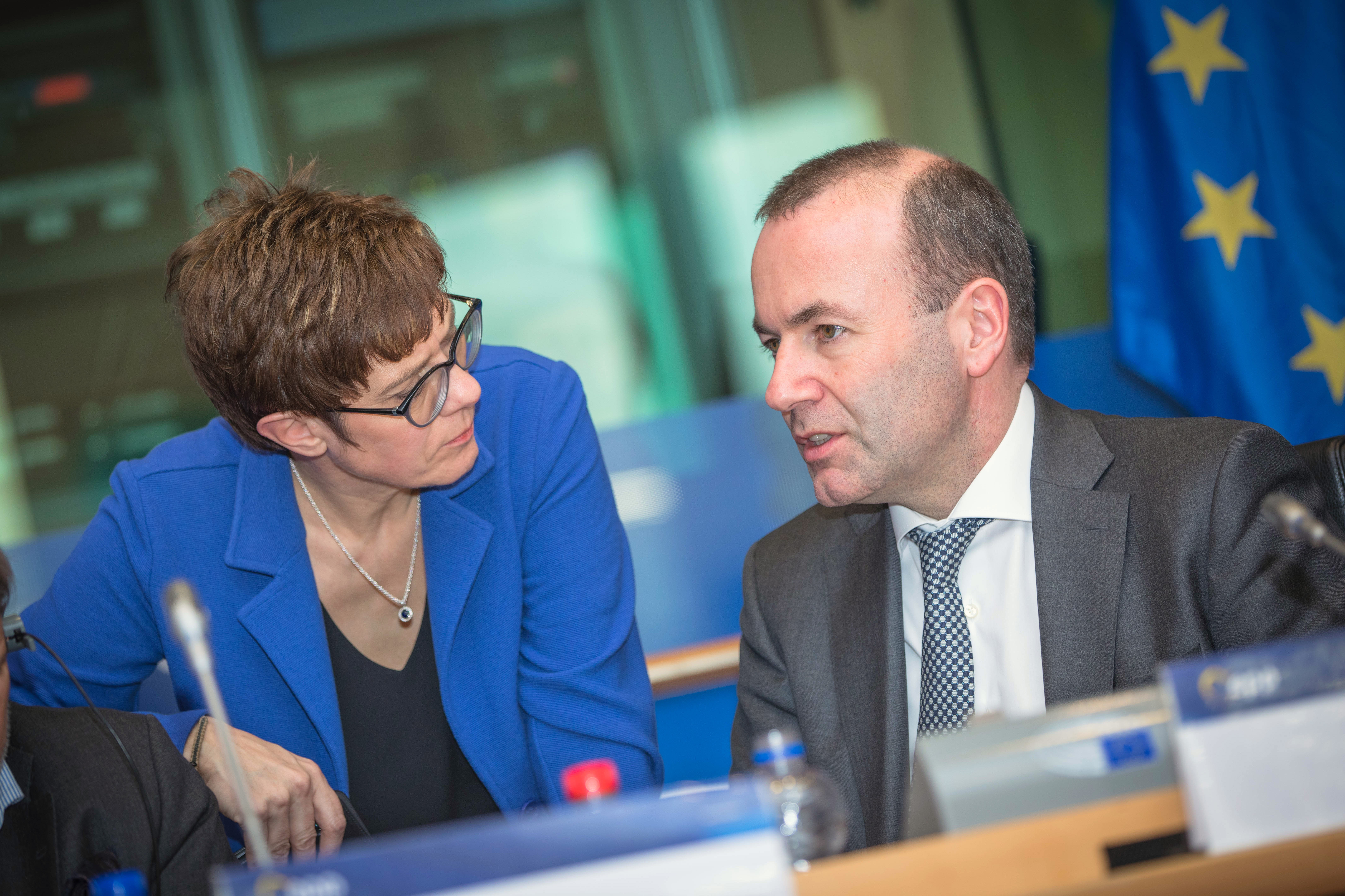 Annegret Kramp-Karrenbauer and Manfred Weber at the EPP Political Assembly, 20 March 2019